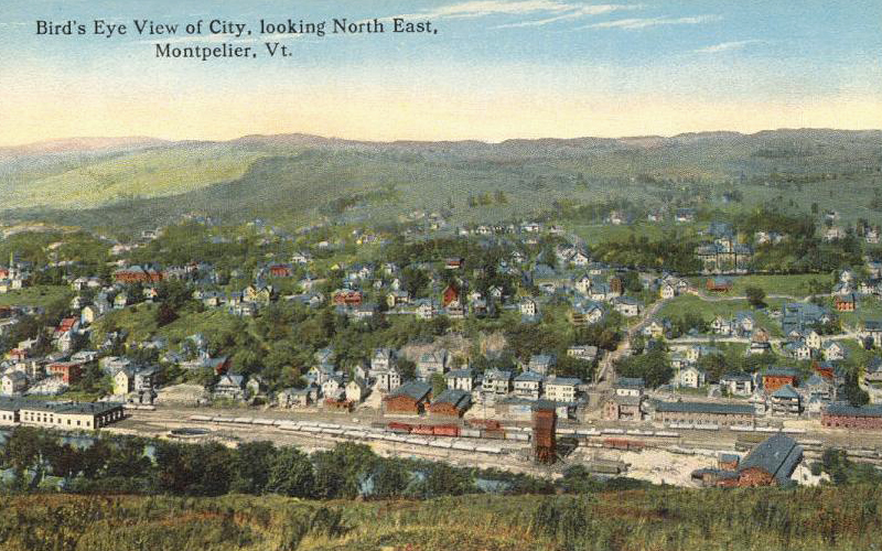 Bird's-eye View of Montpelier, Vermont. 1912 postcard Flickr data on 2011-08-14 Tags: Montpelier, Vermont, Montpelier, Vermont, Bird's-eye View, 1912, postcard, VT, PD License: CC BY 2.0 User: paukrus Ruslan